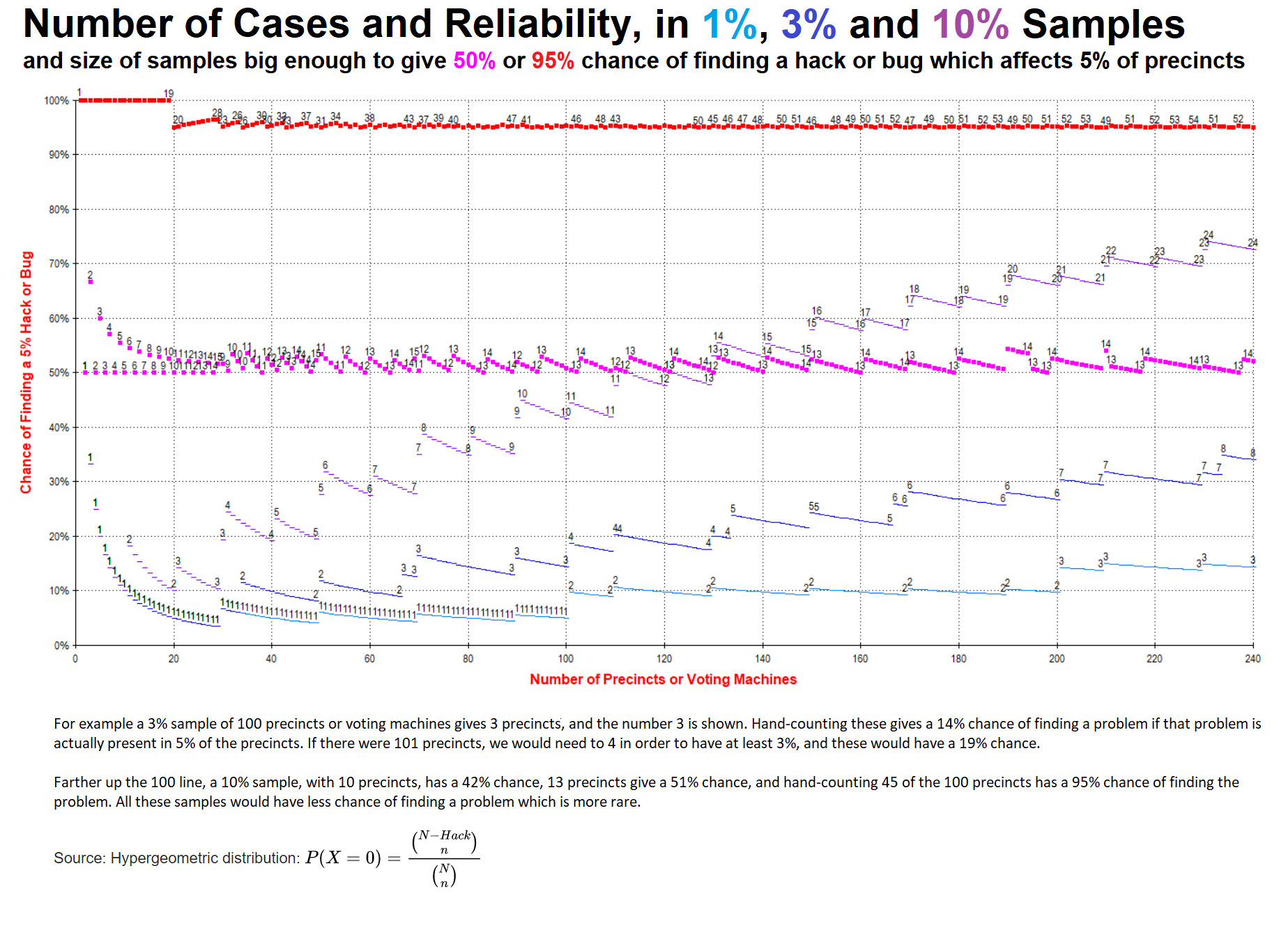 Number of cases and reliability in samples used for election audits. Some samples are specified as at least 1% (or 3%, 5%) of precincts or voting machines, rounded up to the next whole number of precincts or machines. The sample would typically be hand-counted to find errors made in earlier counts. Other samples are specified as the sample size needed to ensure at least 95% (or 50%) odds that the hand counts will reach one or more precincts where an error is present, given an assumption that 5% of precincts (rounded to the nearest precinct) have errors, such as a bug, or a hack which was trying to pass unnoticed to sway a close election. The graph uses 1 minus the hypergeometric distribution for the odds of missing the erroneous precincts. If more or fewer precincts actually have errors, then odds of finding them are larger or smaller, respectively.